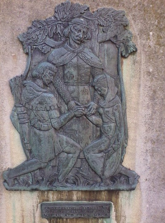 Richard The Lionheart - Robinhood plaque outside Nottingham Castle. He is shown erroneously with the royal arms of King Edward III (1327-1377) on his tabard